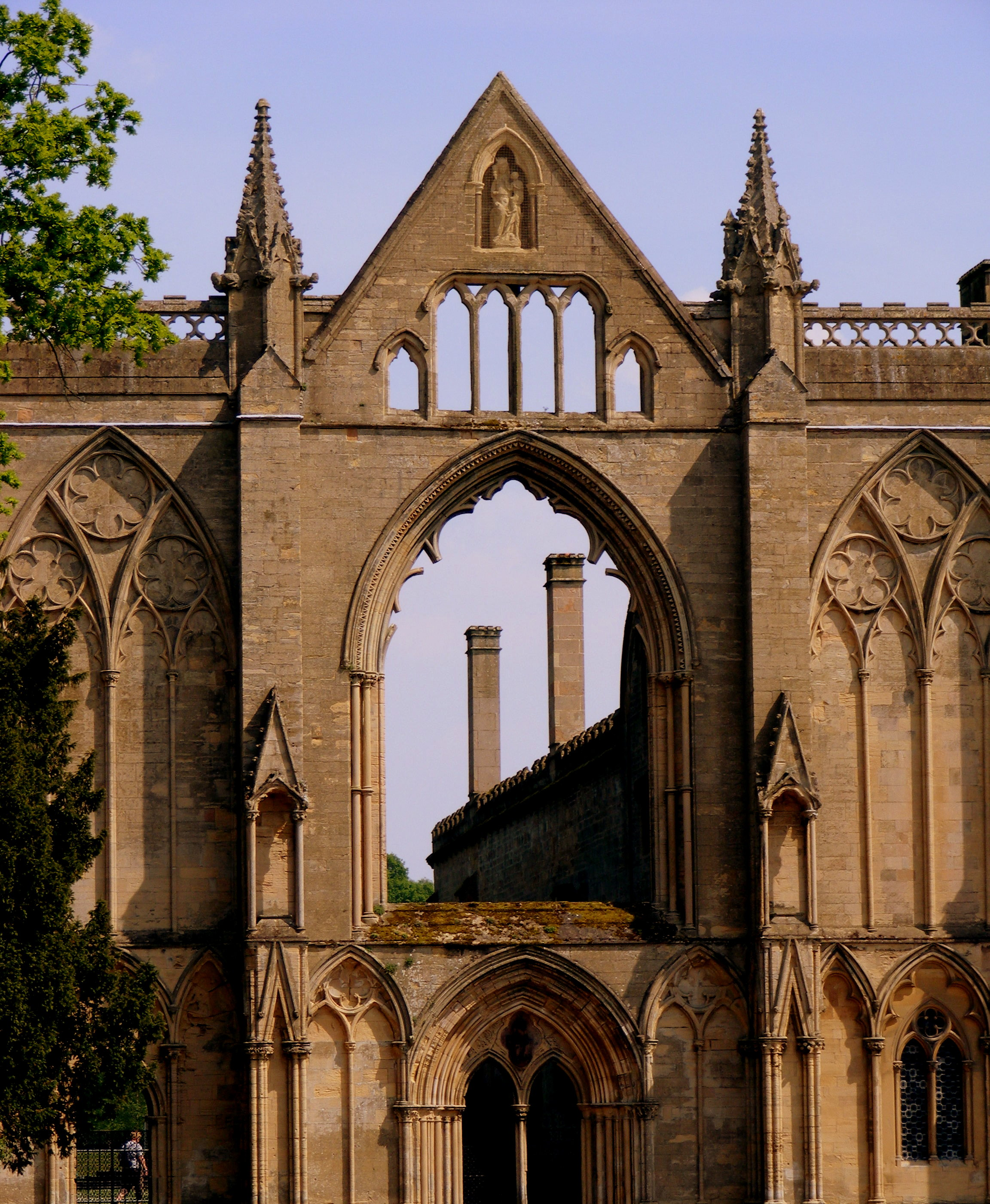 Newstead Abbey Church